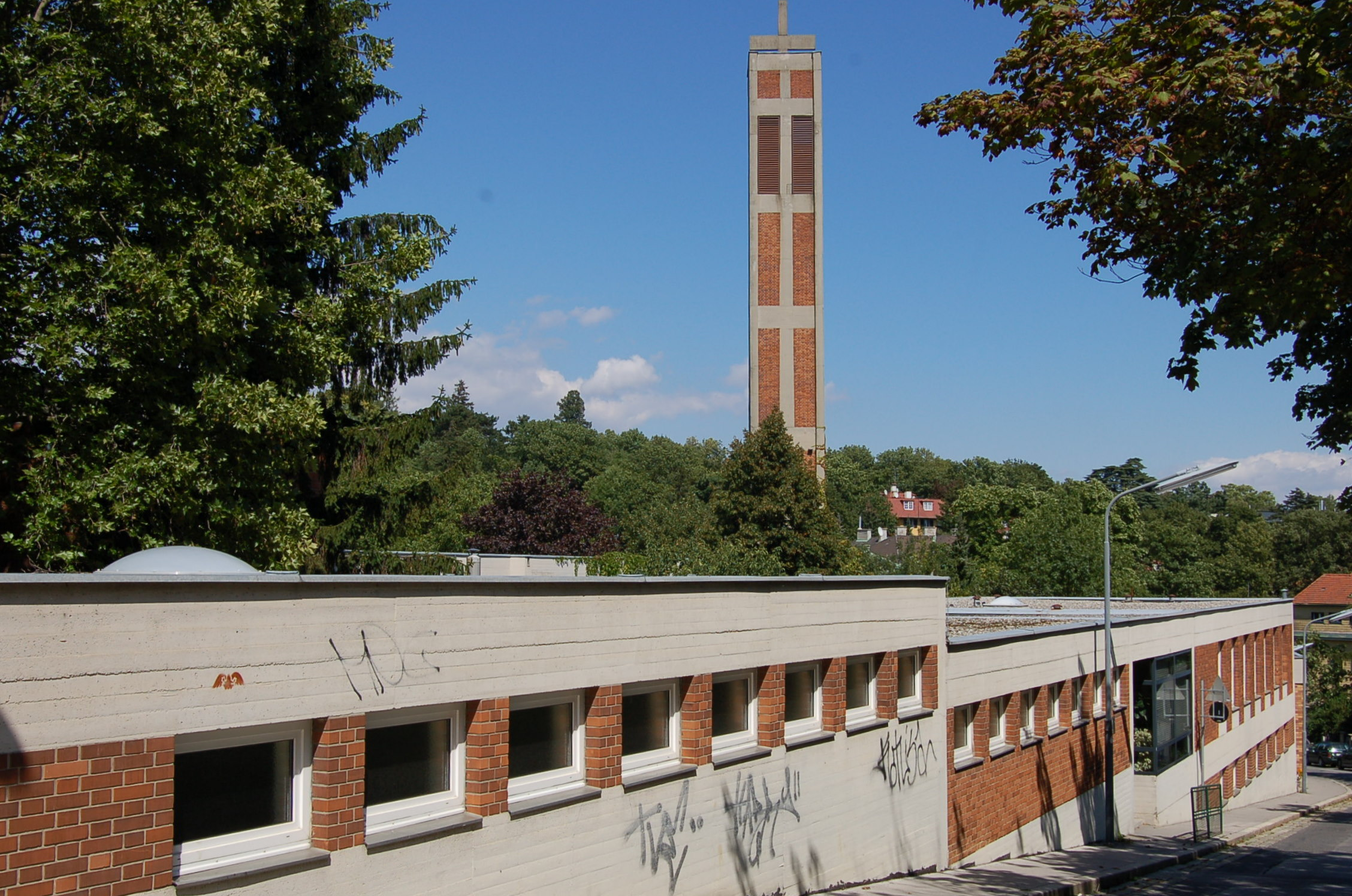 Poetzleinsdorf parish building (Vienna 18th, 2 Schafberggasse) with the spire of the parish church